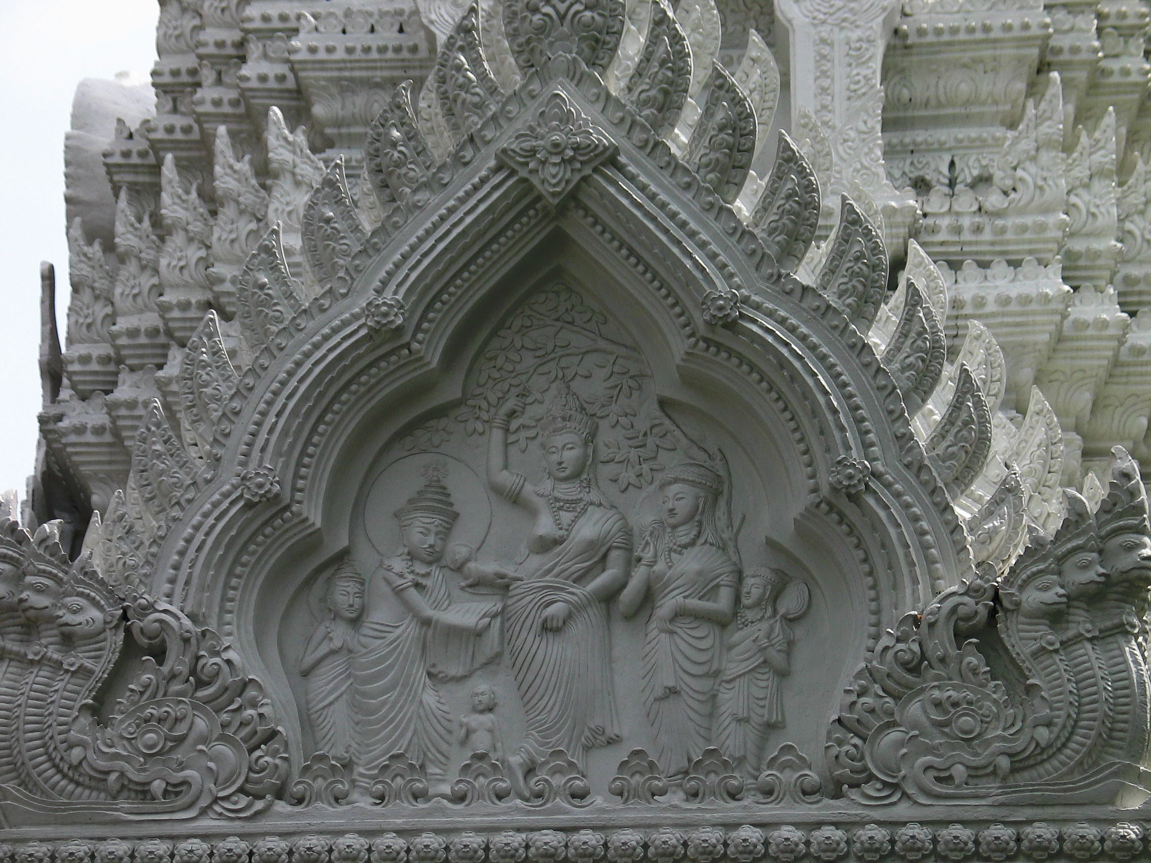 Hor Trai (library) of Wat Rajapradit, Bangkok